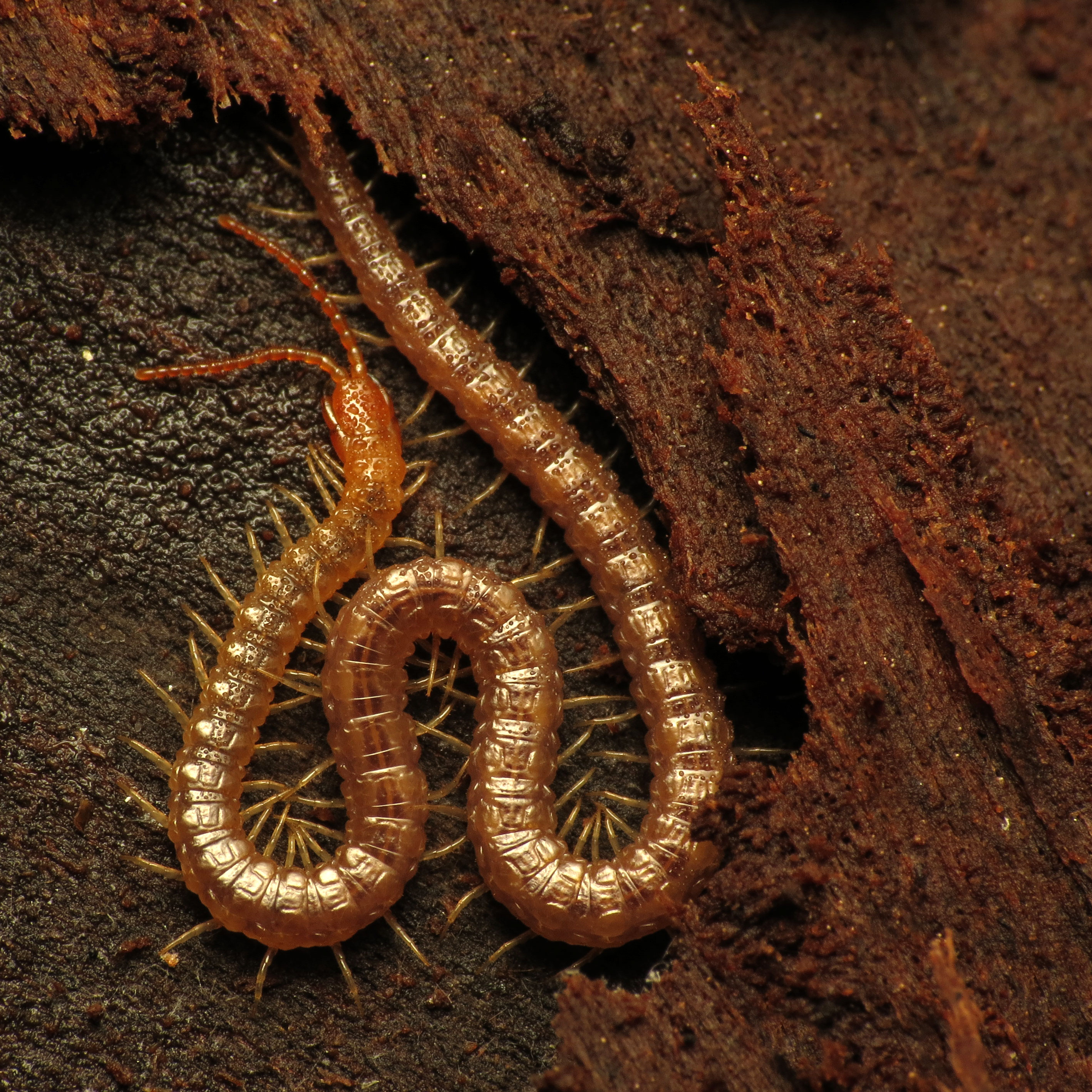 Geophilus sp. Rock Creek Park, Washington, DC, USA